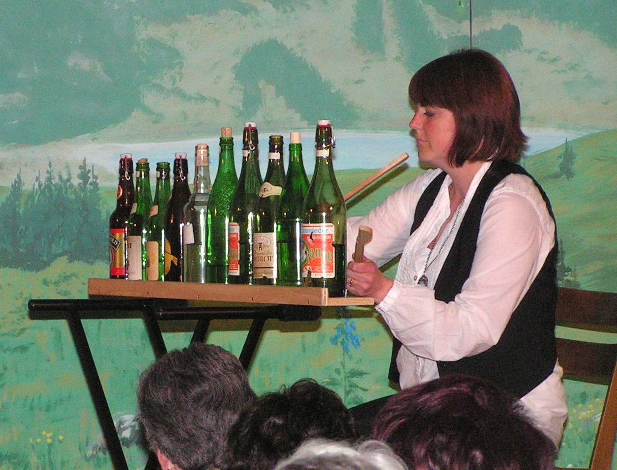 A bottle piano being played at a Swiss folk music concert. Each water-filled bottle has a different volume and produces a different sound.